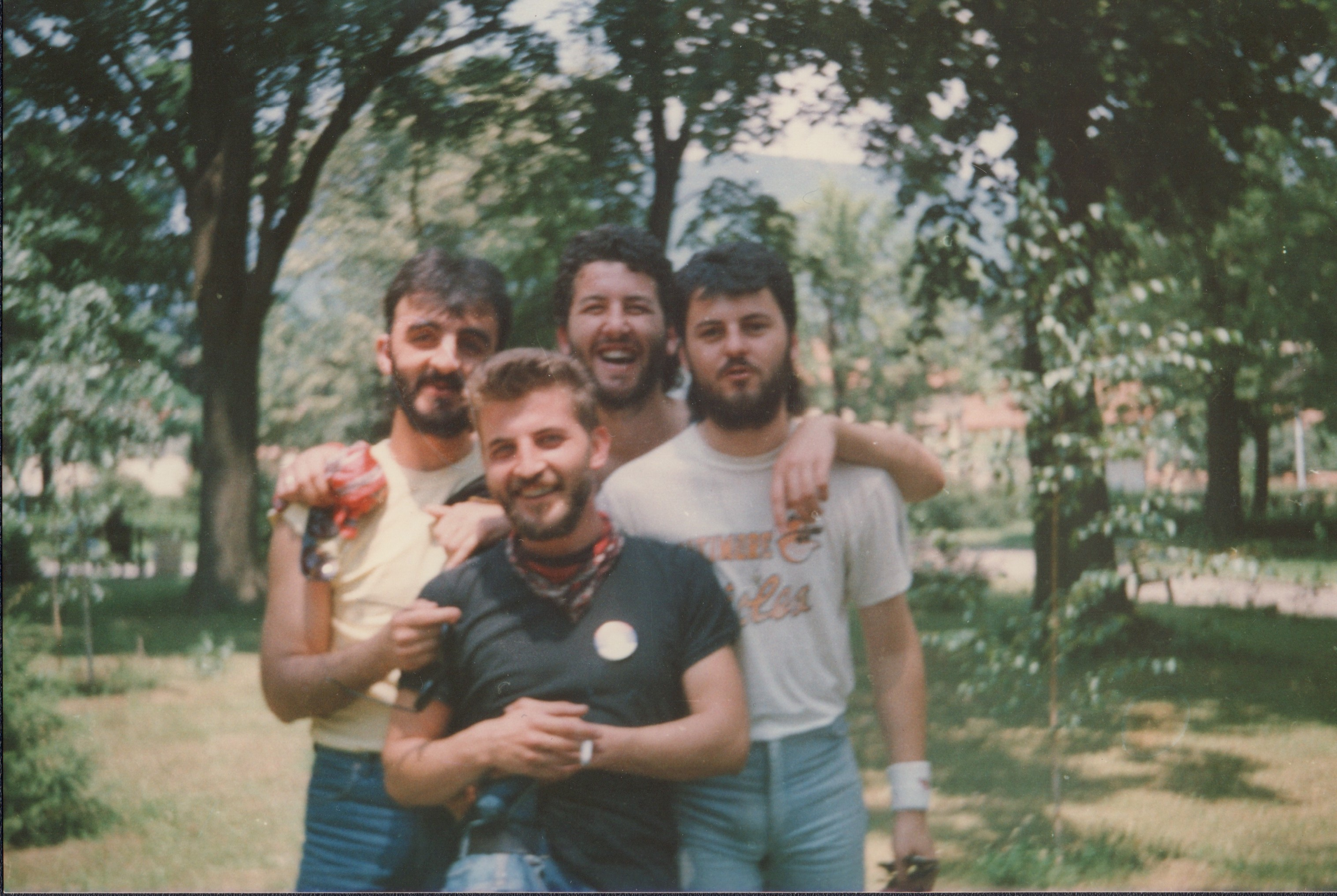 Jolly Jumper 1989.